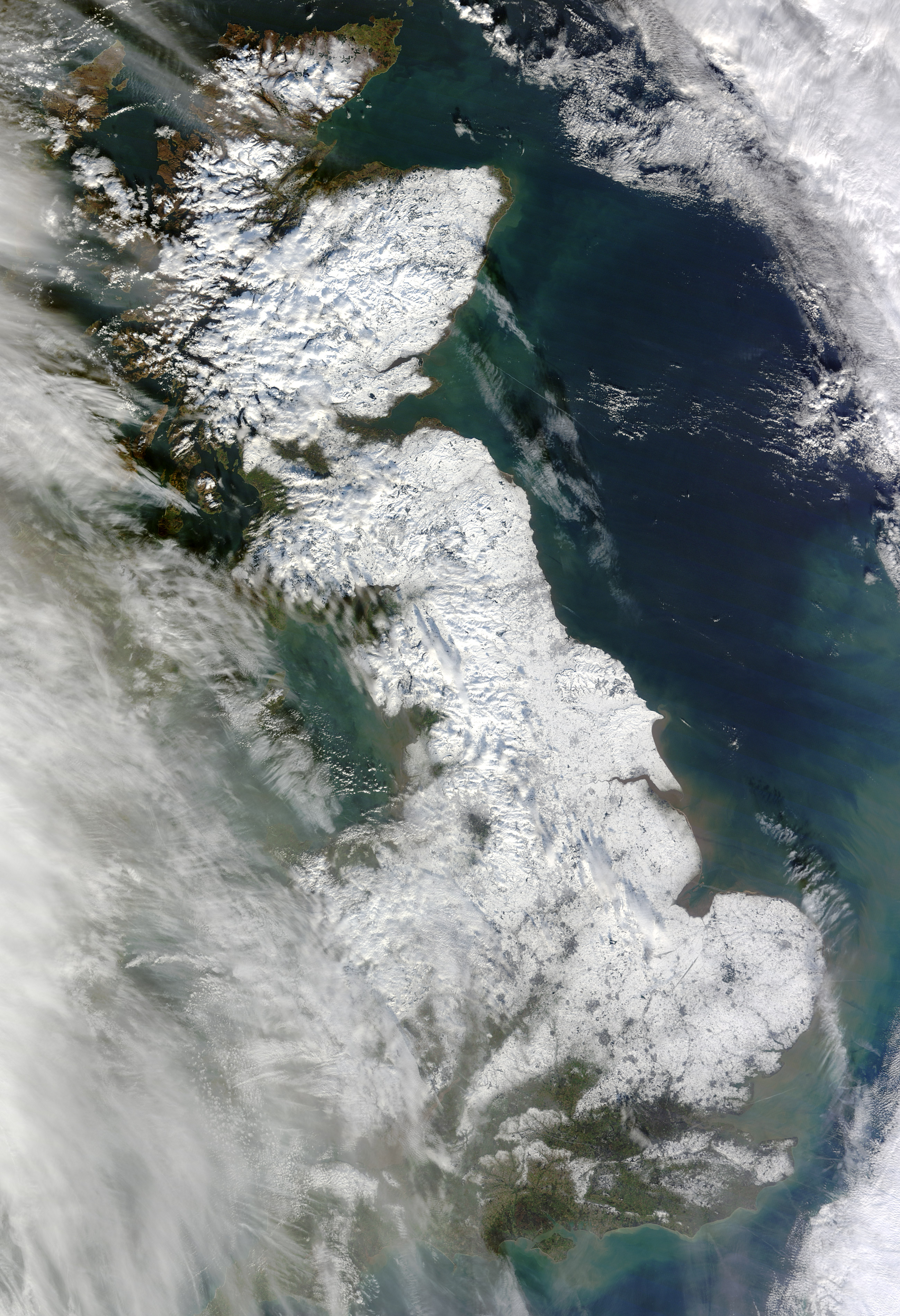 Snow blanketed most of Great Britain in late January 2013, stretching from London to the northern tip of Scotland. The Moderate Resolution Imaging Spectroradiometer (MODIS) on NASA’s Terra satellite captured this natural-colour image on January 26, 2013. Only some coastal areas and the southwestern part of the island were free of snow when MODIS took this picture. Skies had mostly cleared by the time MODIS acquired the image, but some clouds lingered in the west, casting shadows onto the snowy surface below. On January 25, The Telegraph newspaper reported that the death toll from the storm was in the double digits, some of the deaths resulting from hazardous driving conditions. As of that date, more snowfall was expected, including near-blizzard conditions in parts of Scotland. Forecasters called for rain to follow the snow, with as much as 40 millimetres (1.6 inches) of rain in western Britain.